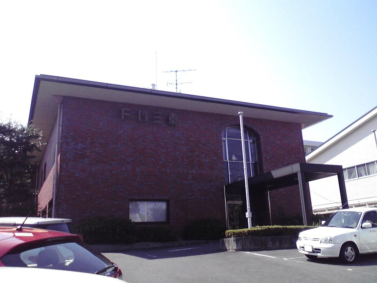 This is a radio ststion in Mie, Japan.